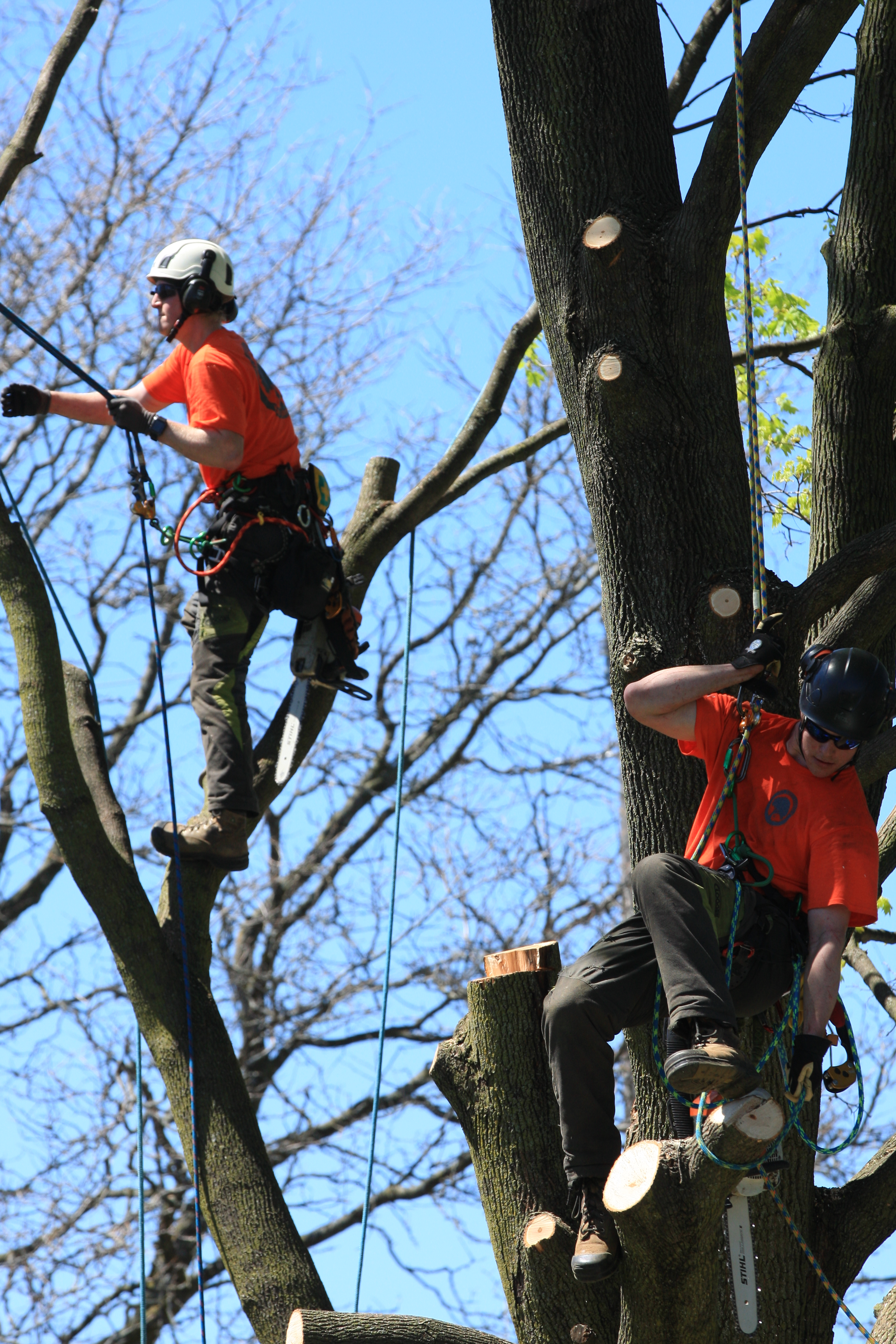 Two tree climbers